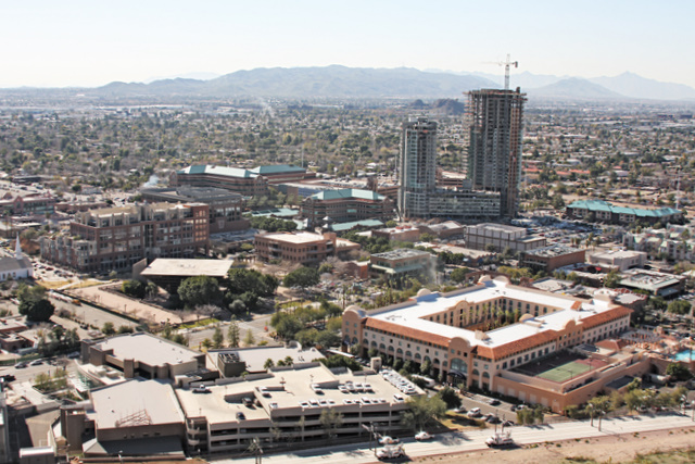 Downtown Tempe, AZ